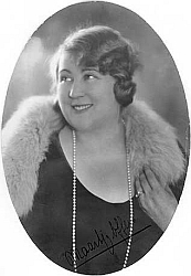 Photograph of Dutch singer Maartje Offers (1891-1944)